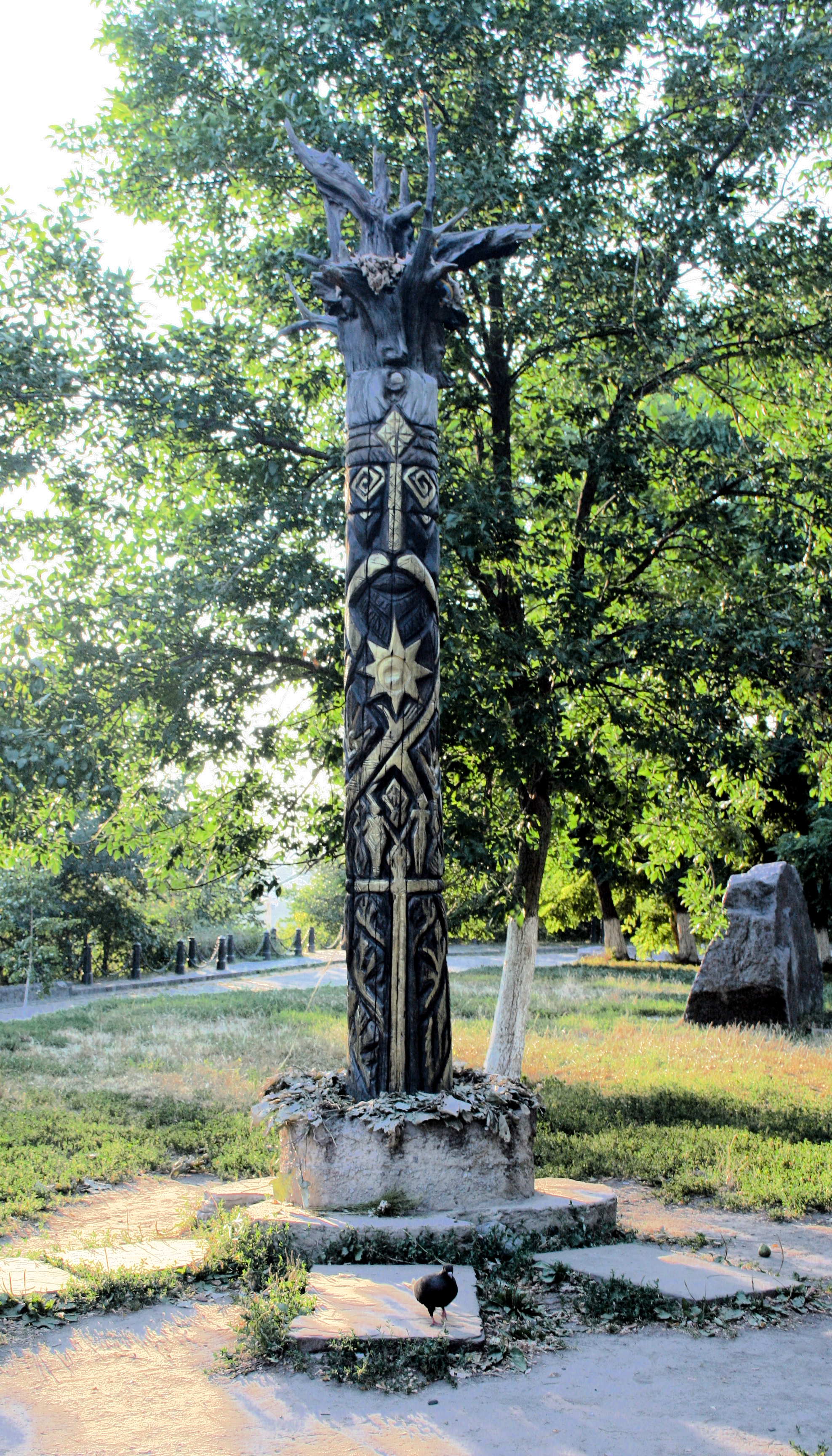 Statue of slavic god Perun erected by ukrainian ridnoviry ( slavic pagans ) in 2009, city of Kyiv.